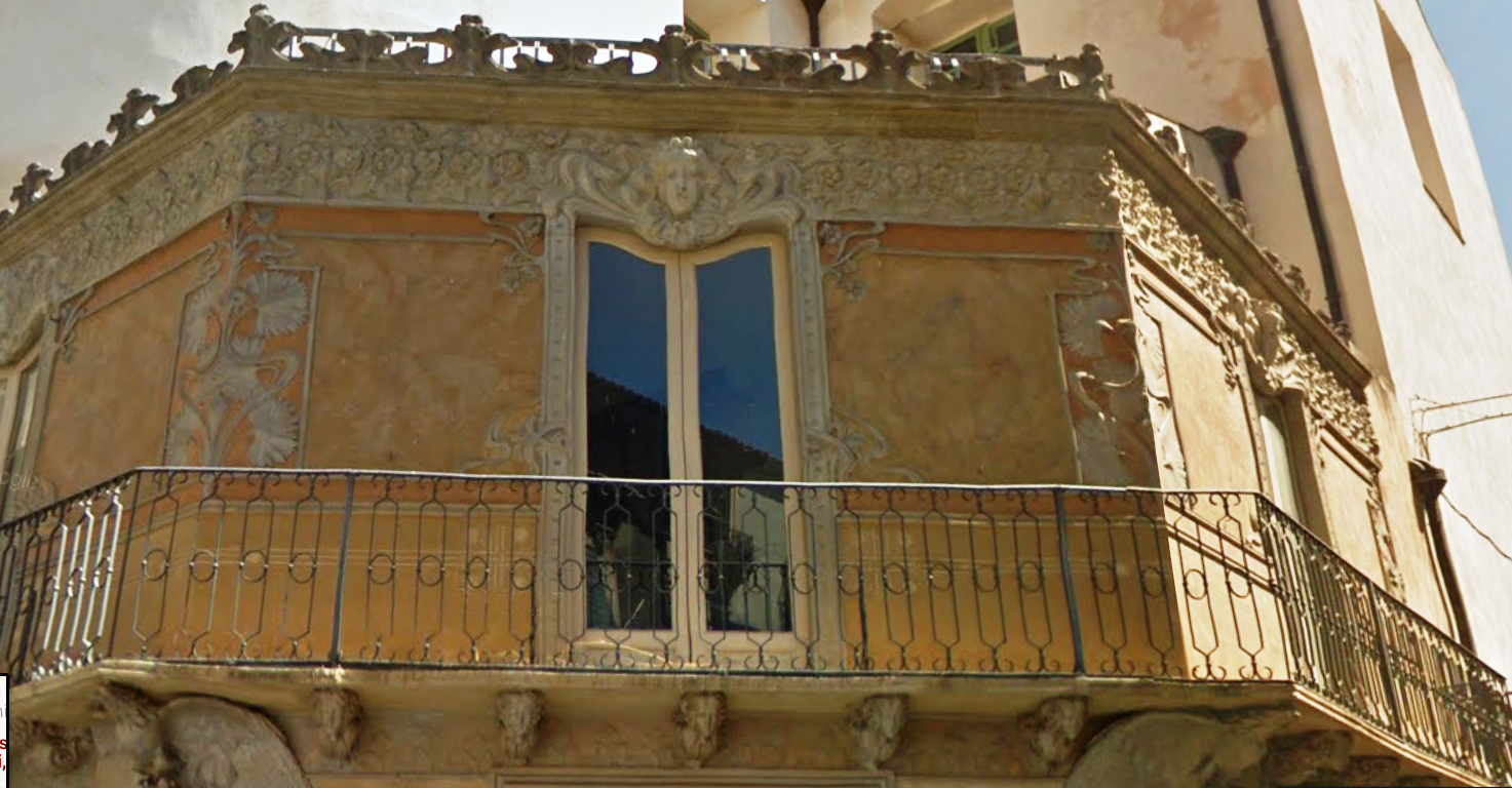 Negozio Frigeri, Via Manzoni, arch. Tommaso Malerba